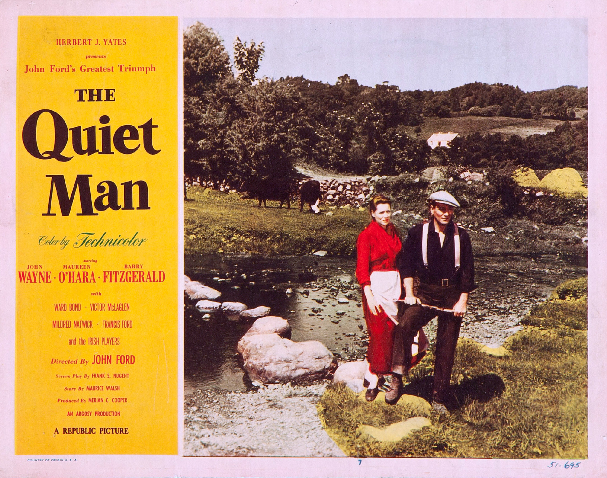 Lobby card from The Quiet Man (1952). Pictured are John Wayne and Maureen O’Hara.